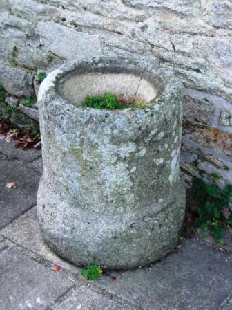 Another ossarium in Lizio